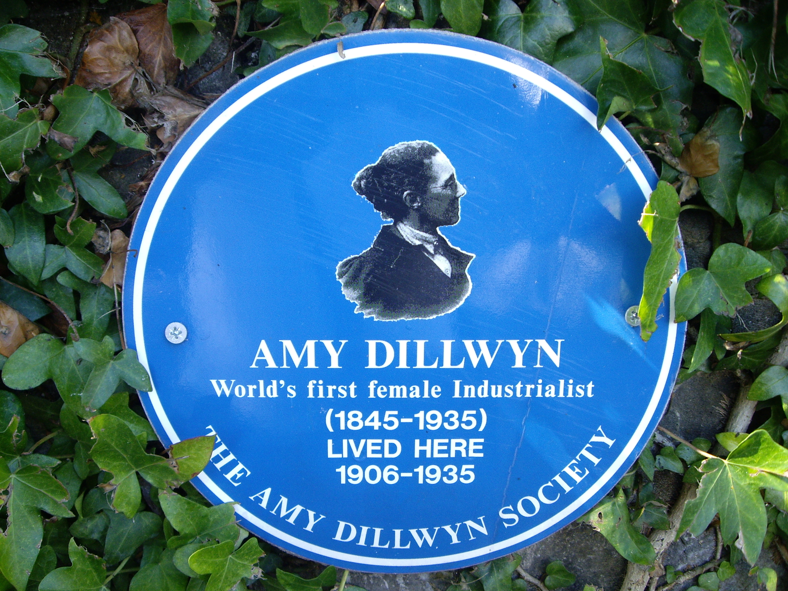 Plaque to Amy Dillwyn, West Cross, Swansea